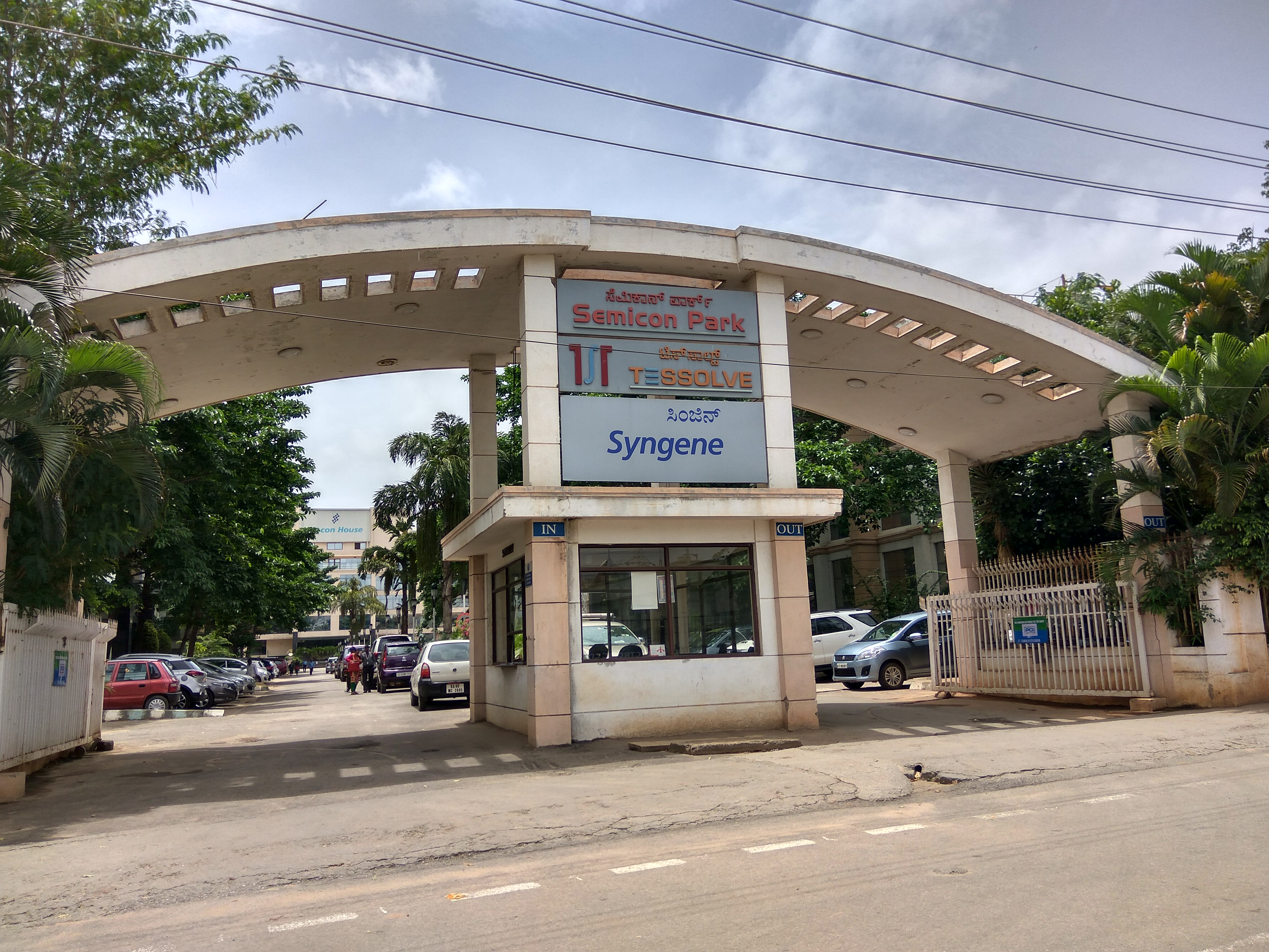 Tessolve Semicon entrance